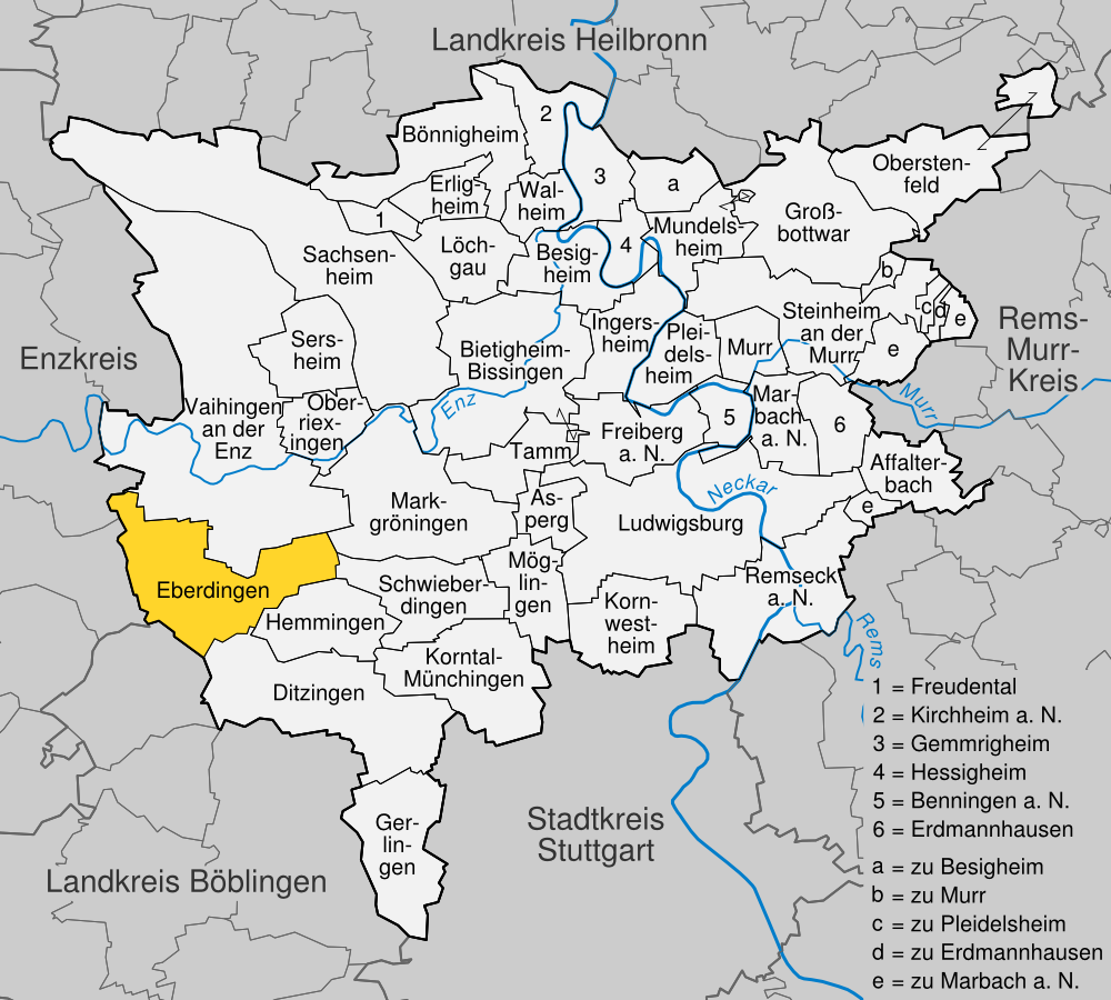 position of Eberdingen within distict of Ludwigsburg, Baden-Württemberg, Germany